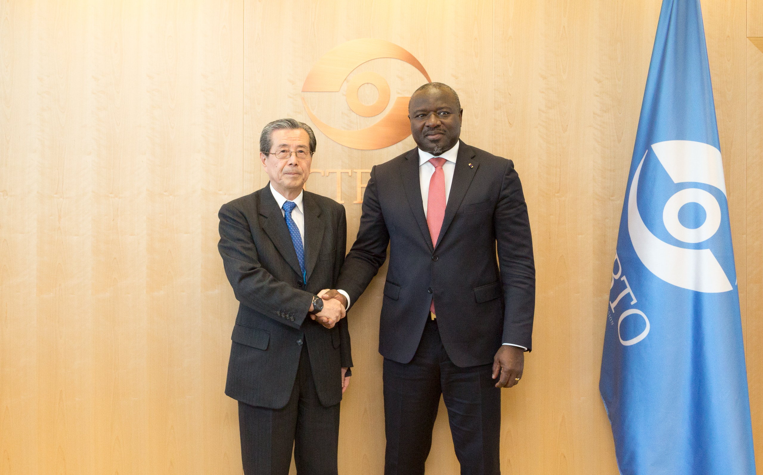 Mr Yasuyoshi Komizo, Secretary General of Mayors for Peace Secretariat, Hiroshima, is paying a courtesy visit to the Executive Secretary of the Comprehensive Nuclear-Test-Ban Treaty Organization, on Tuesday, 2 May 2017.